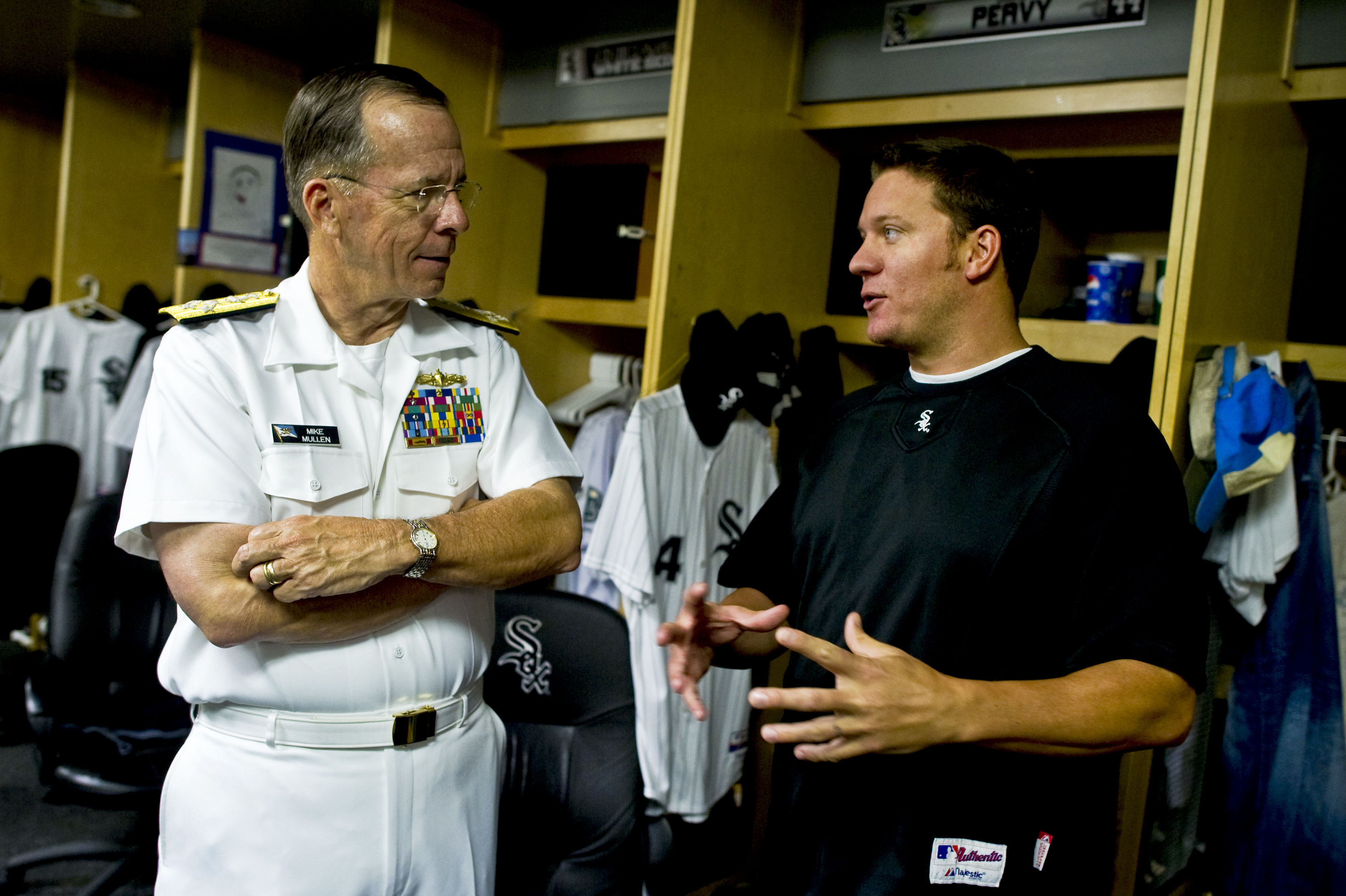 Michael Mullen (left) and Jake Peavy